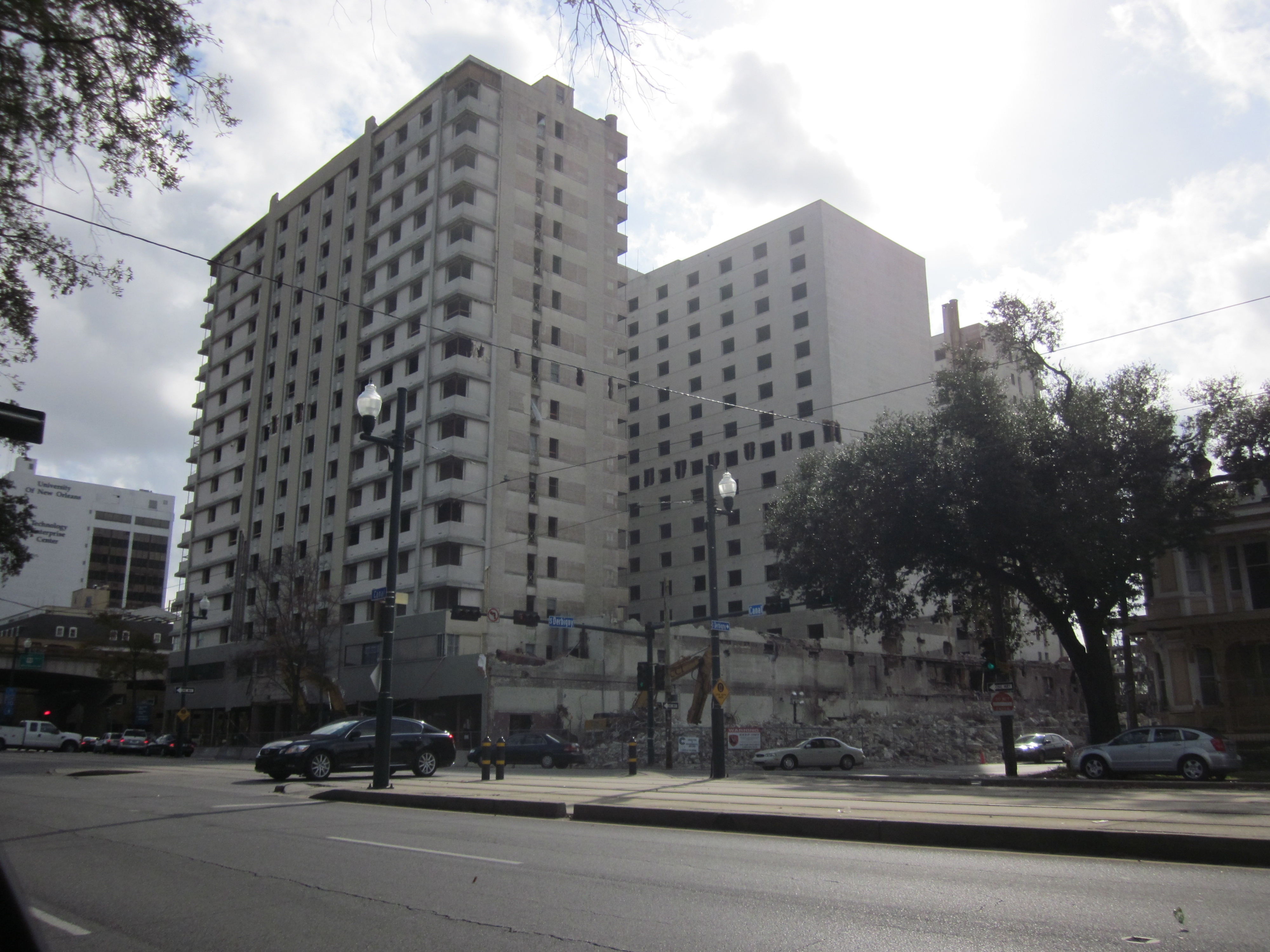 Last days of the Claiborne Towers building, aka Pallas Hotel aka Grand Palace Hotel, uptown lake corner of Canal & Claiborne, New Orleans.